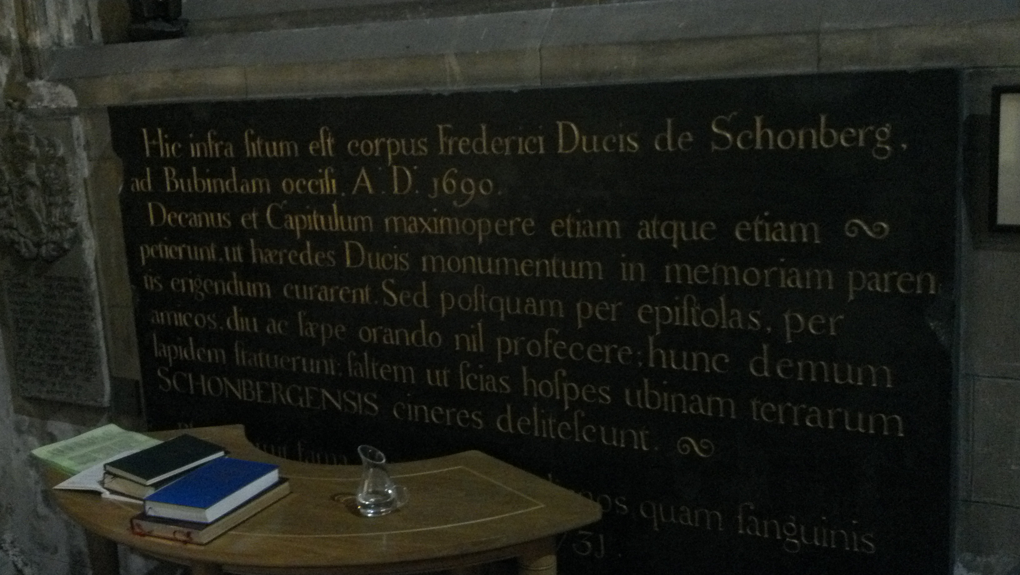 Latin inscription inside St. Patrick's Cathedral, Dublin, Ireland, dedicated to the memory of the Duke of Schomberg. Written by Jonathan Swift, Dean of St. Patrick's Cathedral.